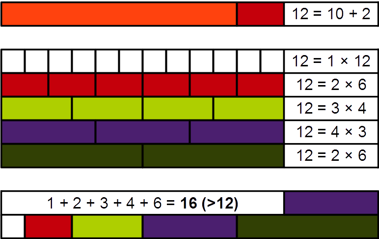 Showing, through Cuisenaire rods, that 12 is an abundant number.